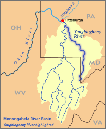 This is a map of the Monongahela River basin, with the Youghiogheny River in West Virginia, Maryland, and Pennsylvania highlighted. Credits I, Pfly, made it, based on USGS data.